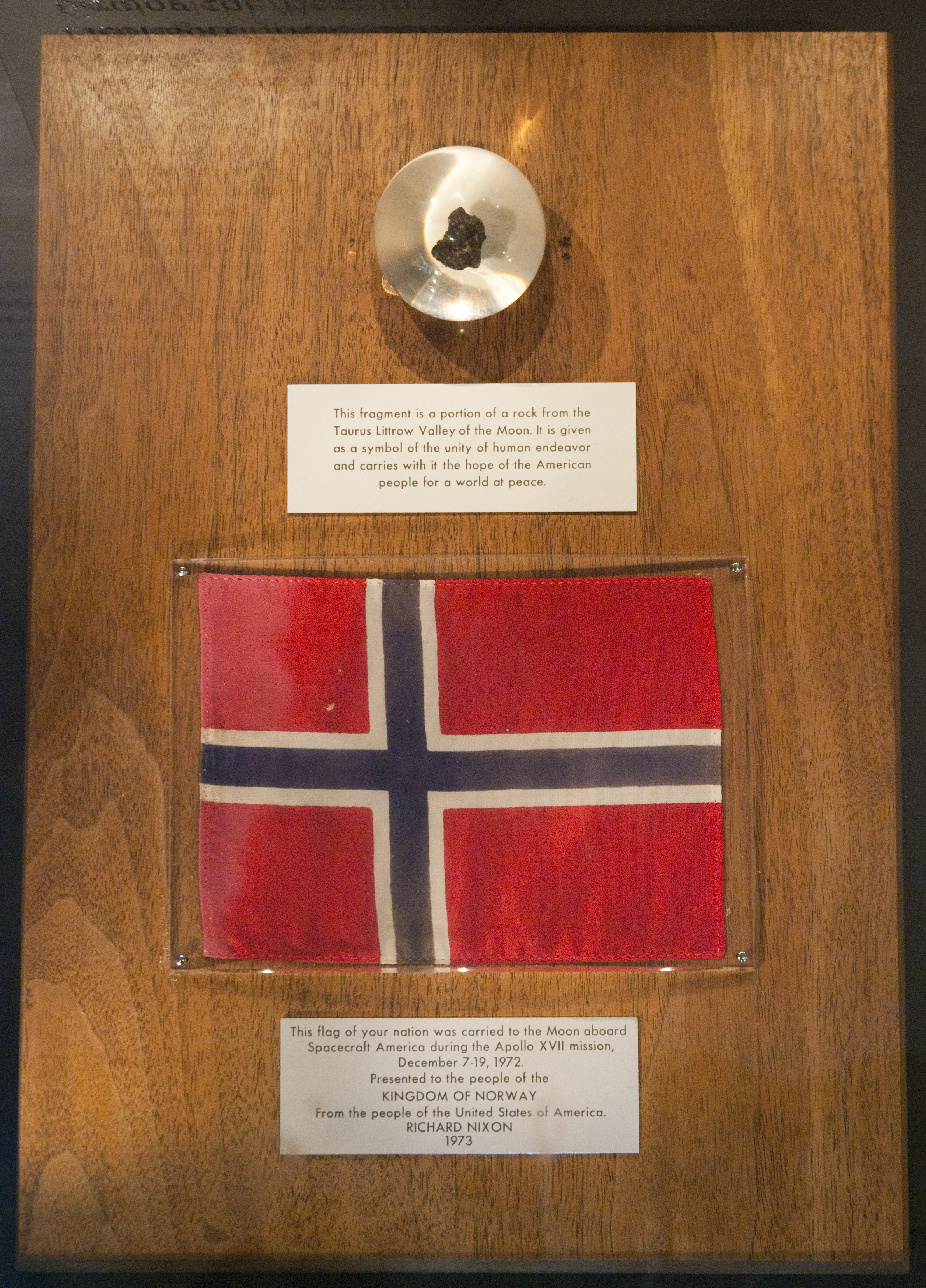 Detail of Apollo 17 exhibit at Natural History Museum at the University of Oslo, showing a moon rock and Norwegian flag flown to the moon aboard Apollo 17.